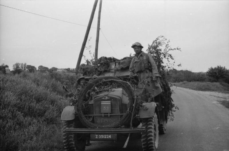 The British Expeditionary Force (bef) in France 1939-1940 4th Battalion Border Regiment on the Somme Front, May 1940: A soldier of the 4th Battalion, Border Regiment stands by his requisitioned and well camouflaged lorry.